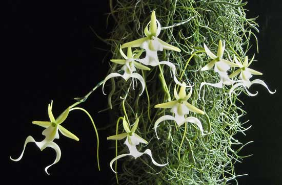 Greenhouse Cultivated Ghost Orchid (Dendrophylax lindenii) by Jeff Hale